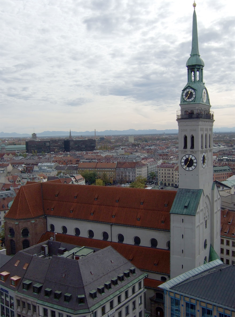 Alter Peter as seen from the Rathausturm